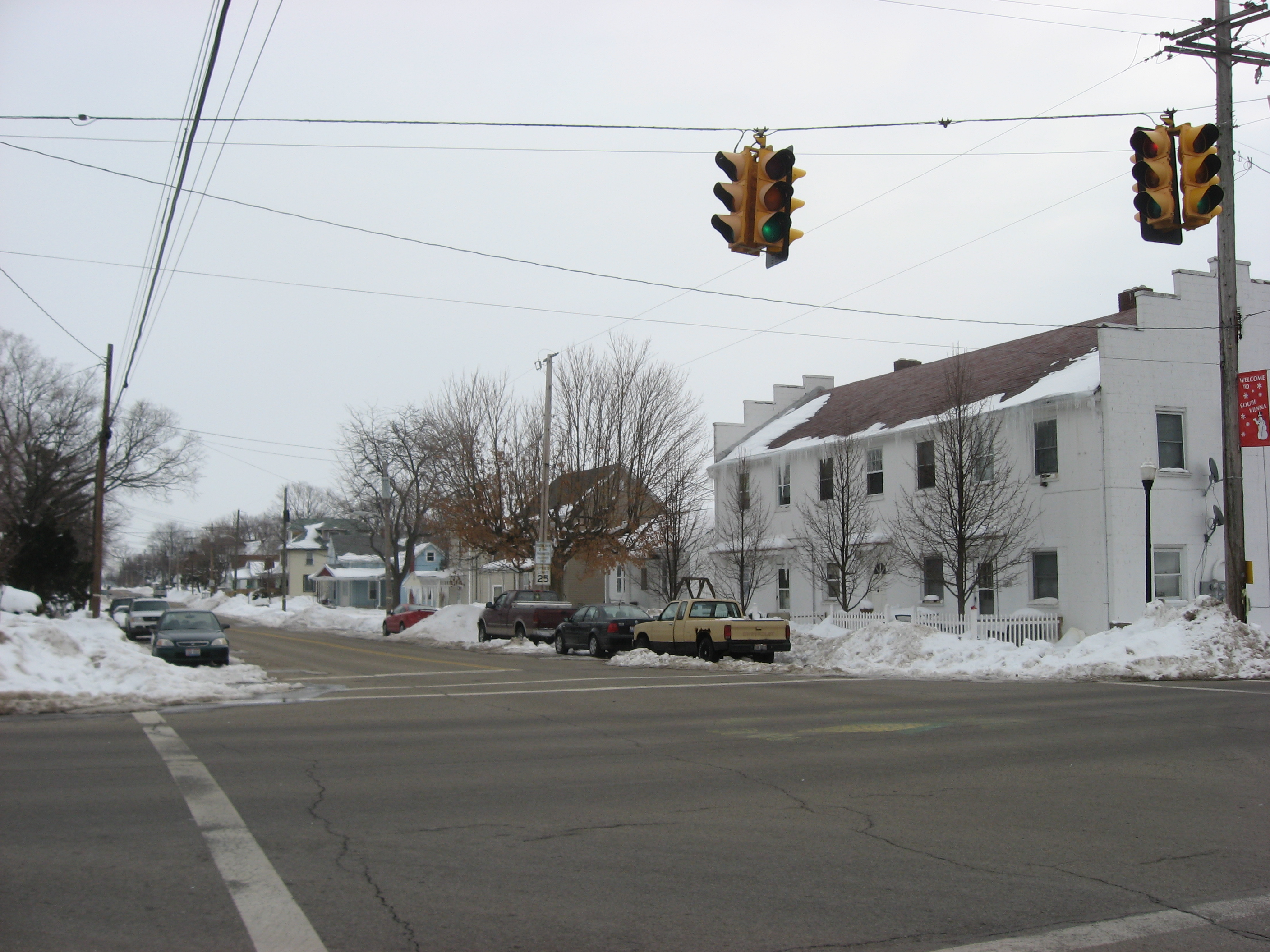 Looking east along Main Street (the old National Road) from the Urbana Street (State Route 54) intersection in central South Vienna, Ohio, United States.